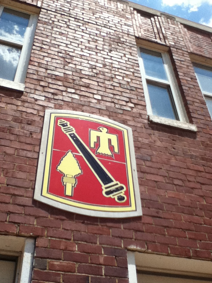 An insignia of the 45th Infantry on the wall of the Enid Armory.